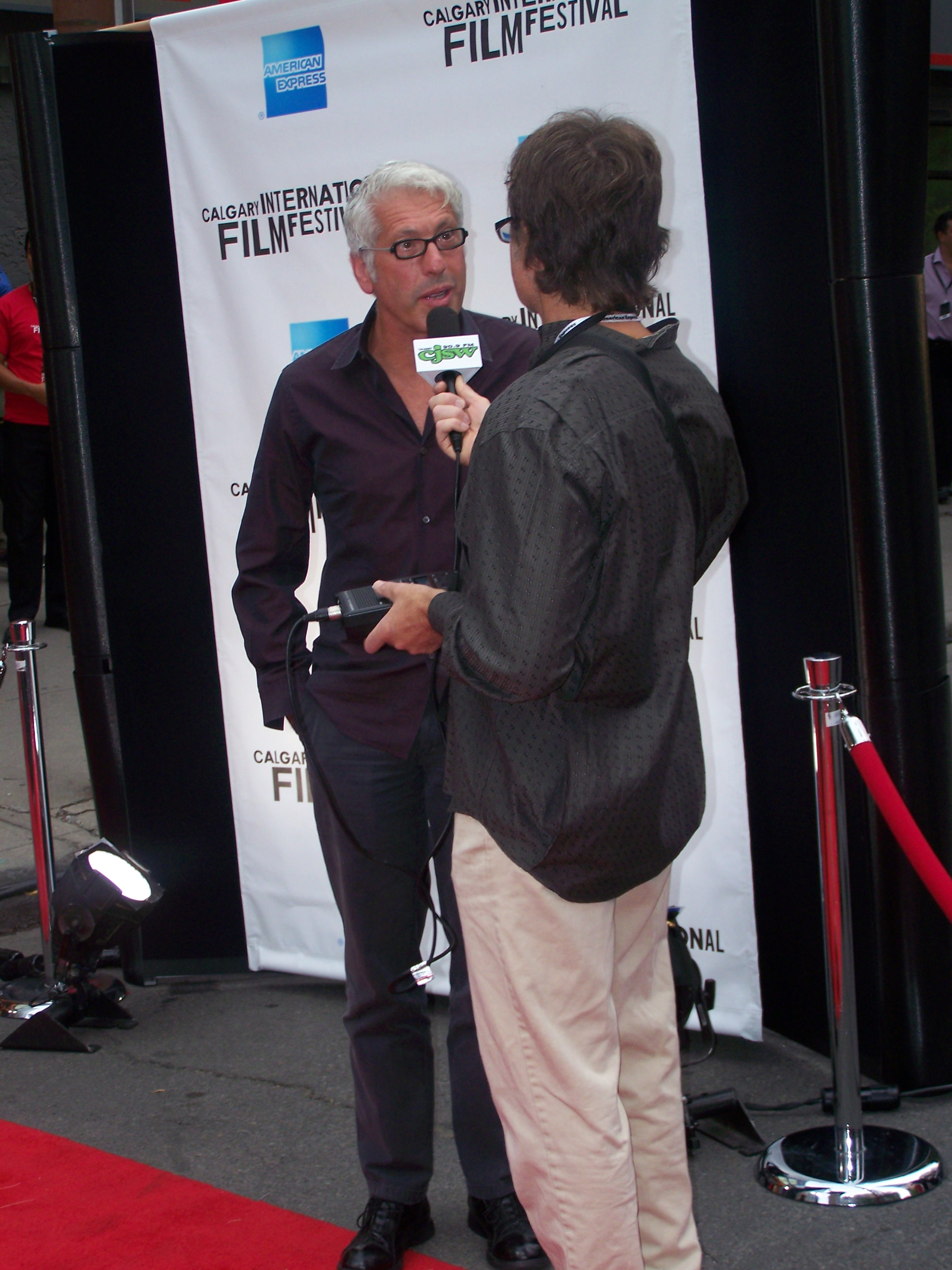 Niv Fichman being interviewed by a reporter with CJSW at the 2008 Calgary International Film Festival. This was outside the gala opening of the film Blindness, on the red carpet, at the Globe Cinema, 617 8 Avenue SW, Calgary, Alberta, Canada.